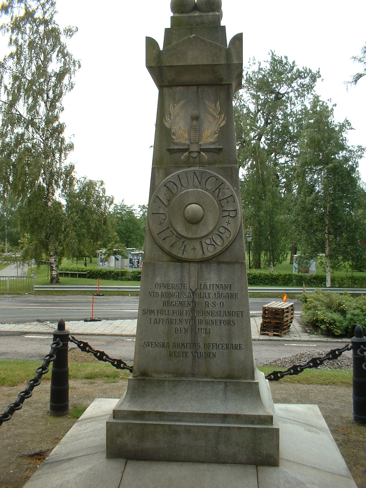 Liutenant-Colonel JZ Duncker's Memorial Monument